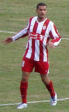 I did take this photo by my Sony N2 Cam During the match between al ittihad Vs Al Ahly T.